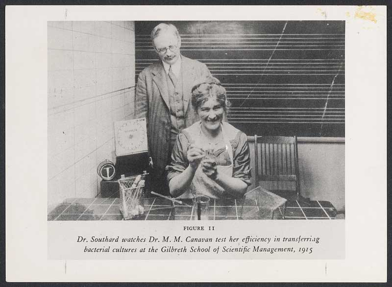 Myrtelle M. Canavan and Elmer Ernest Southard